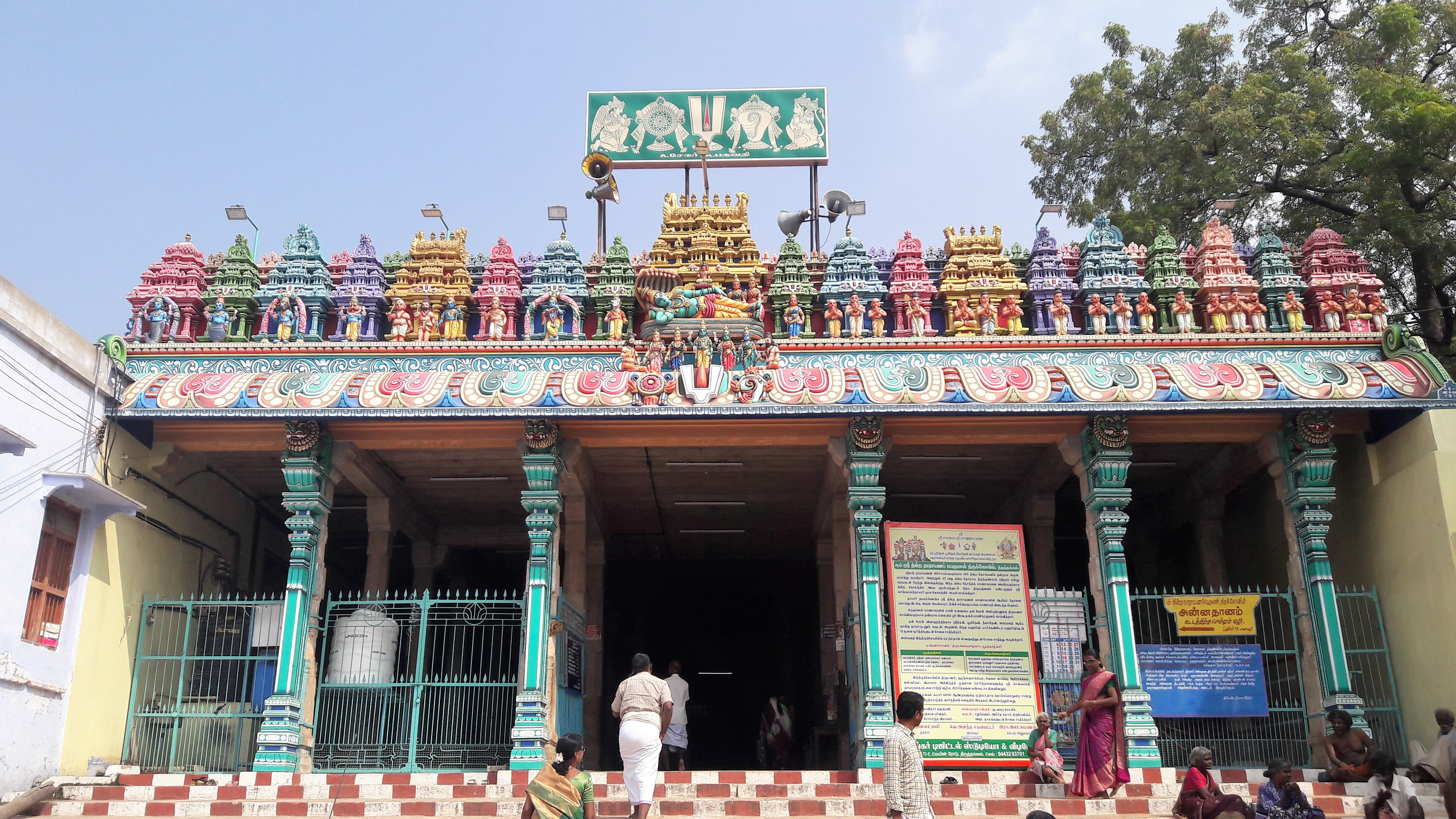 Thiruthankal Ninra Narayana Perumal